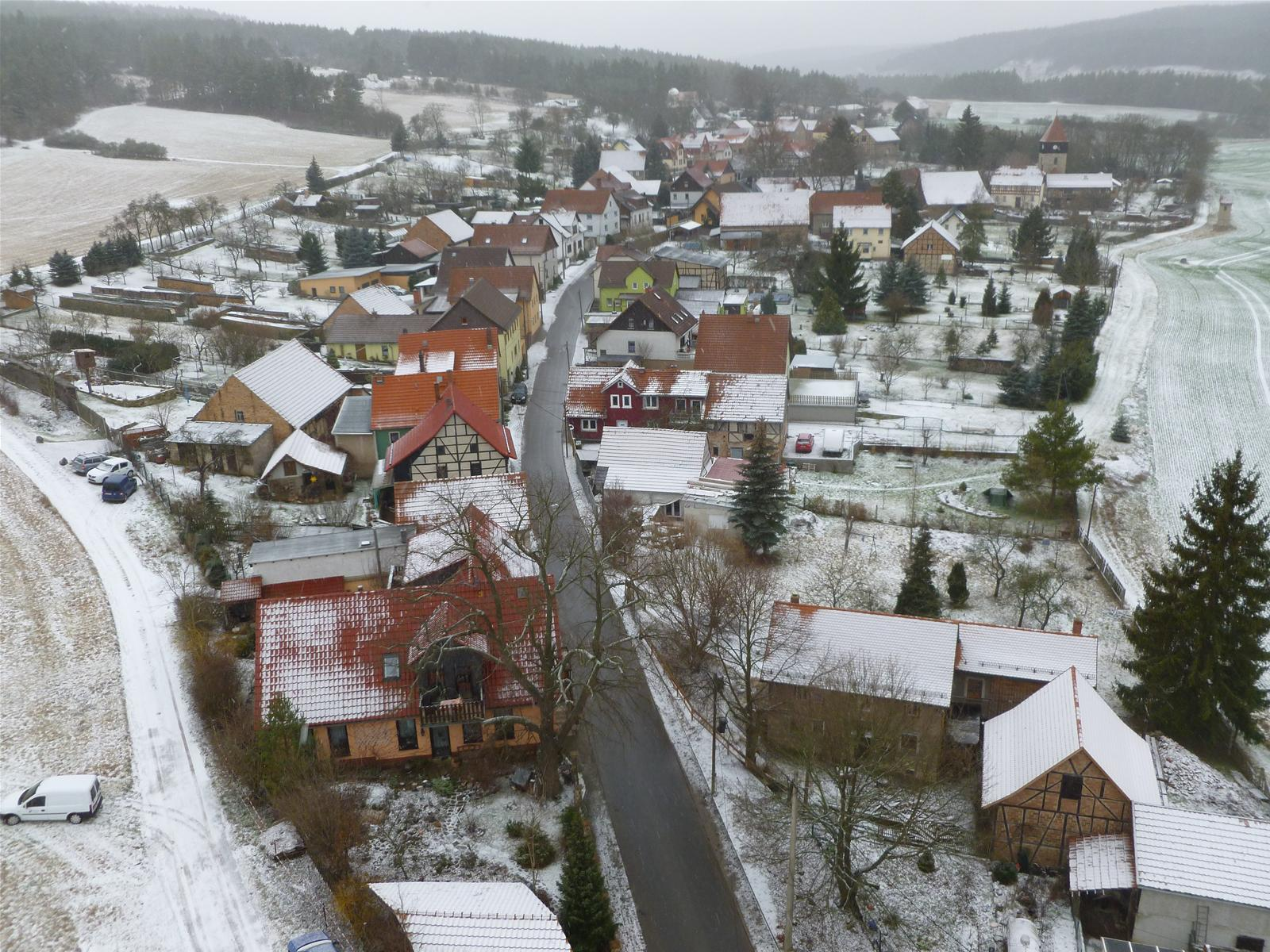 View on Espenfeld, Arnstadt, Germany